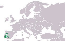 Distribution of Alytes cisternasii, based on Nöllert/Nöllert: "Die Amphibien Europas"